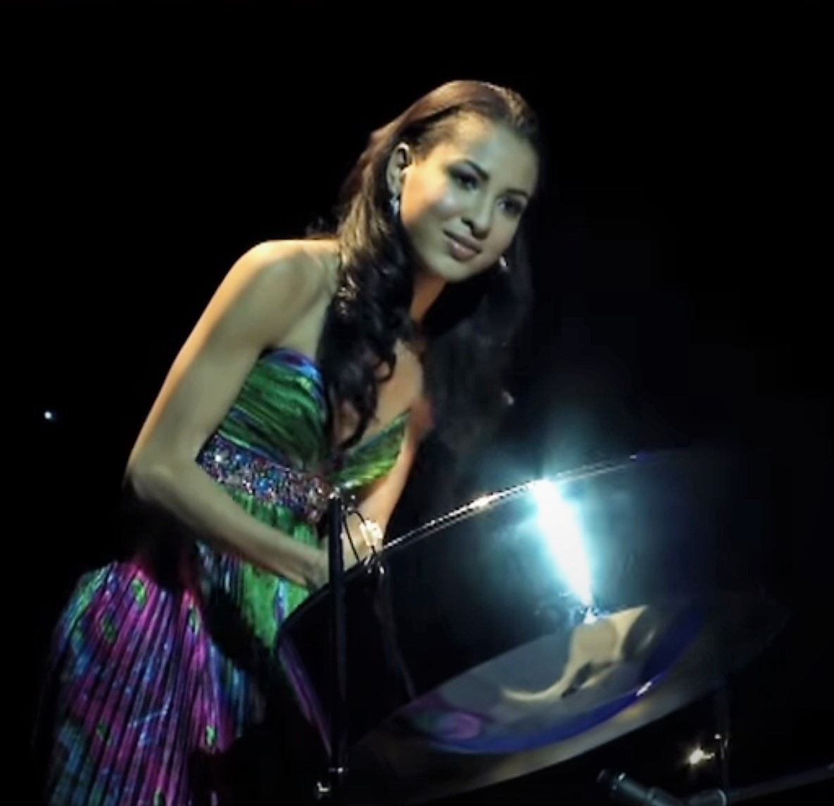 Sherrece Villafana 2013 Miss World Trinidad and Tobago, drumming Miss World 2013 TALENT COMPETITION Bali, Sunday 22nd of September